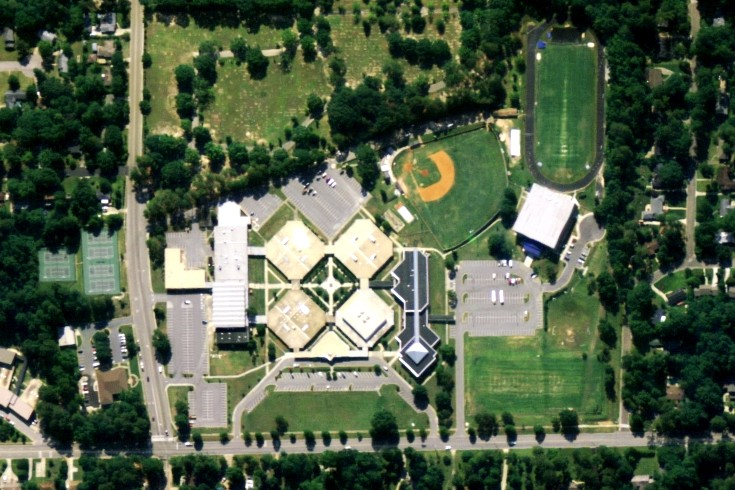 Aerial image of Auburn High School (Alabama) in Auburn, Alabama, United States